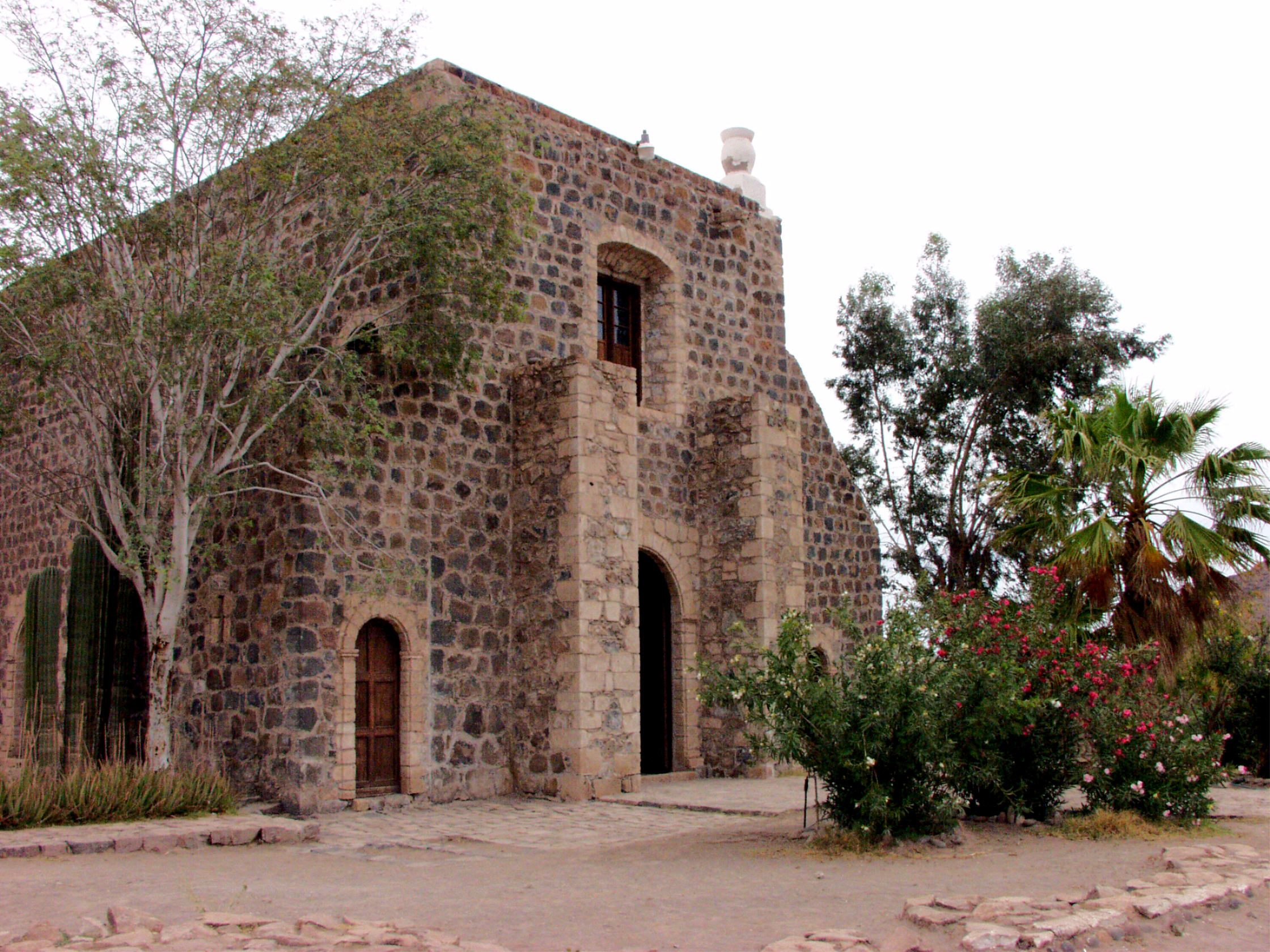 Mission de Santa Rosalía de Mulege — in Mulegé oasis, northeastern Baja California Sur state, México.